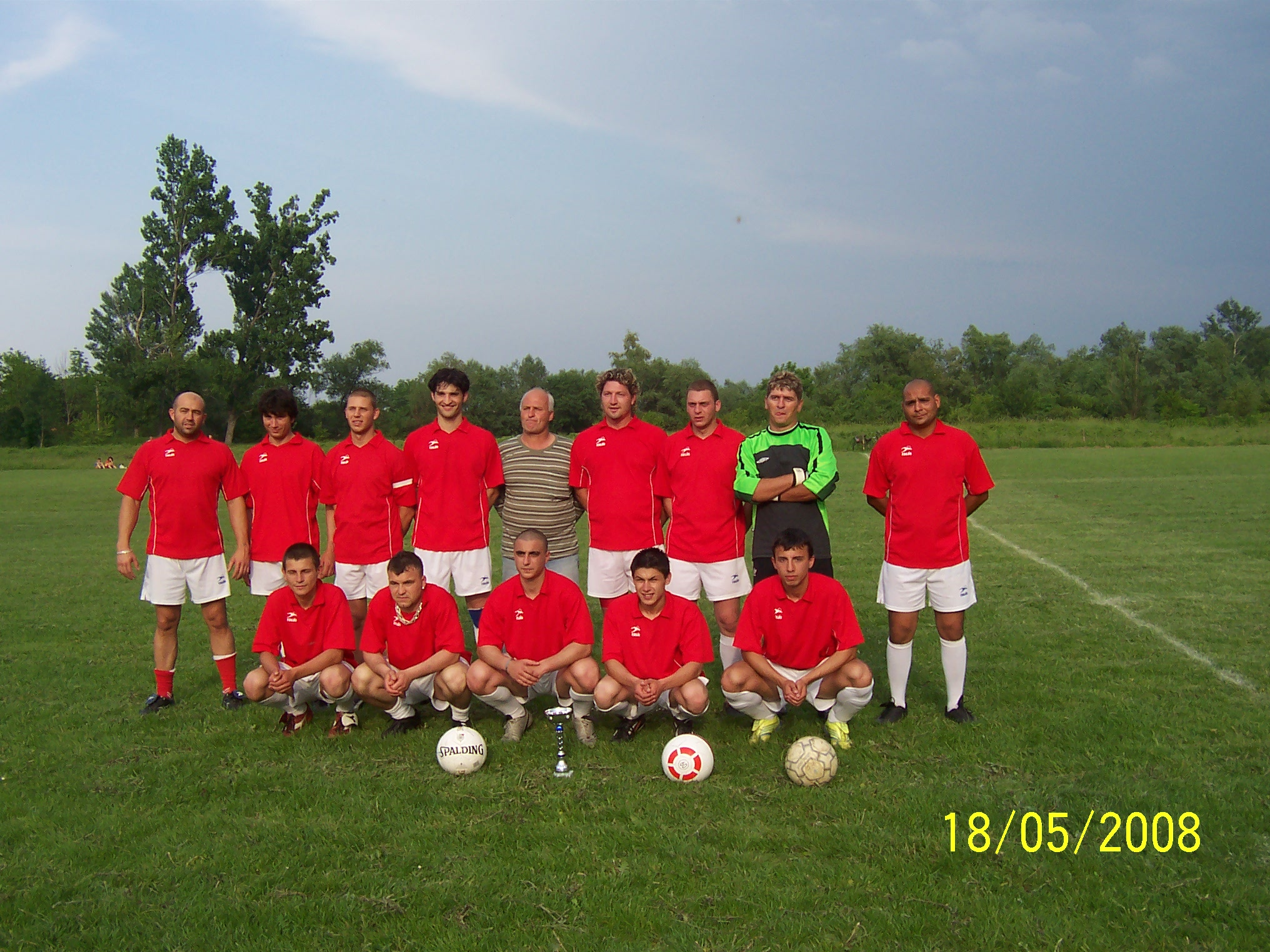 Football Club "Svetoslav"(Lepica)